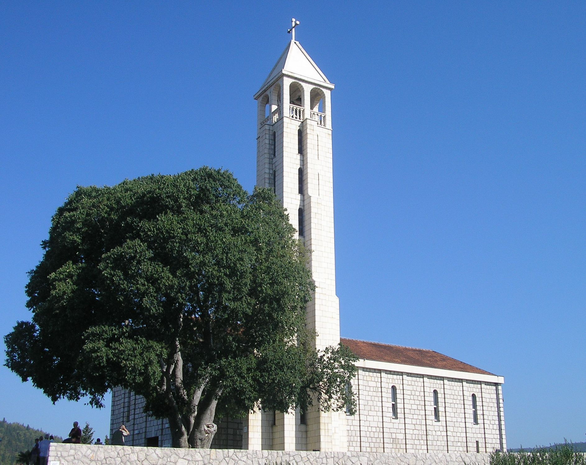 Church of Santa Maria ad Nives in Vid, Croatia